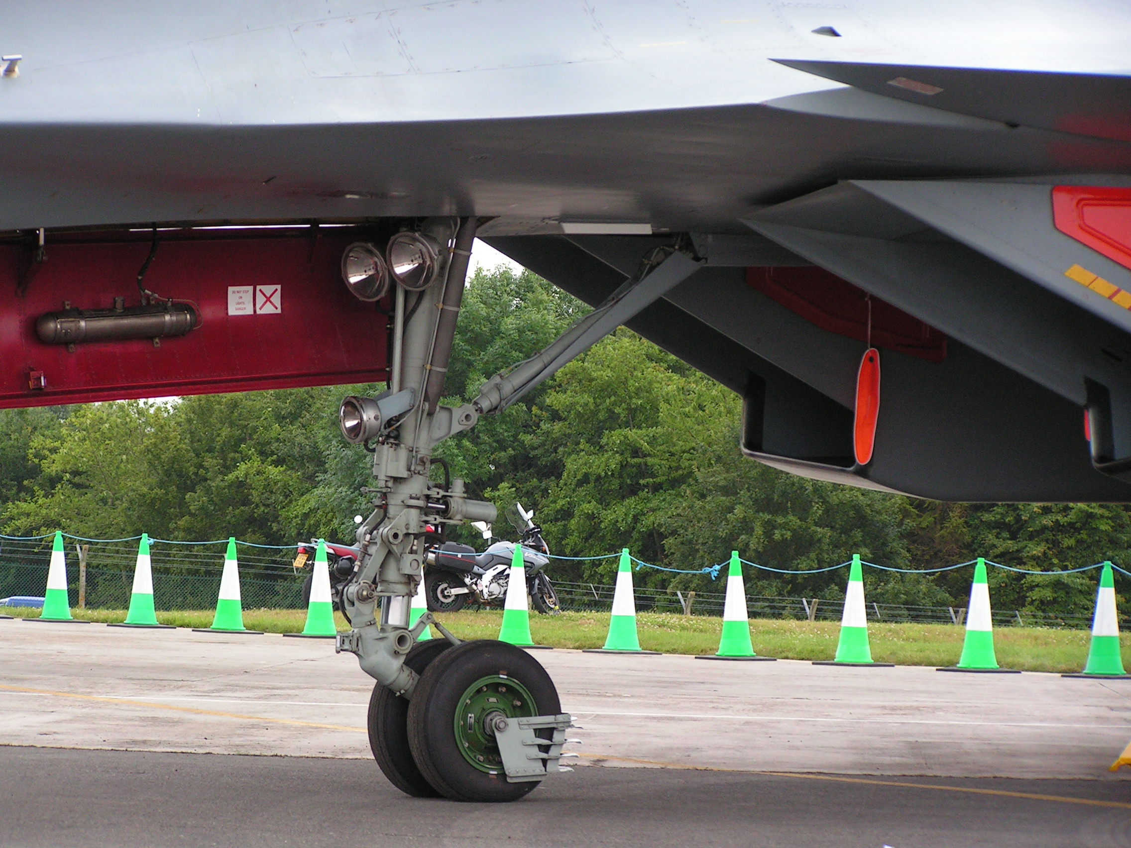 Nosewheel of the Su-30MKI showing that the diagonal linking strut on the flankers is mounted externally and fixed to the fuselage instead of the gear leg.